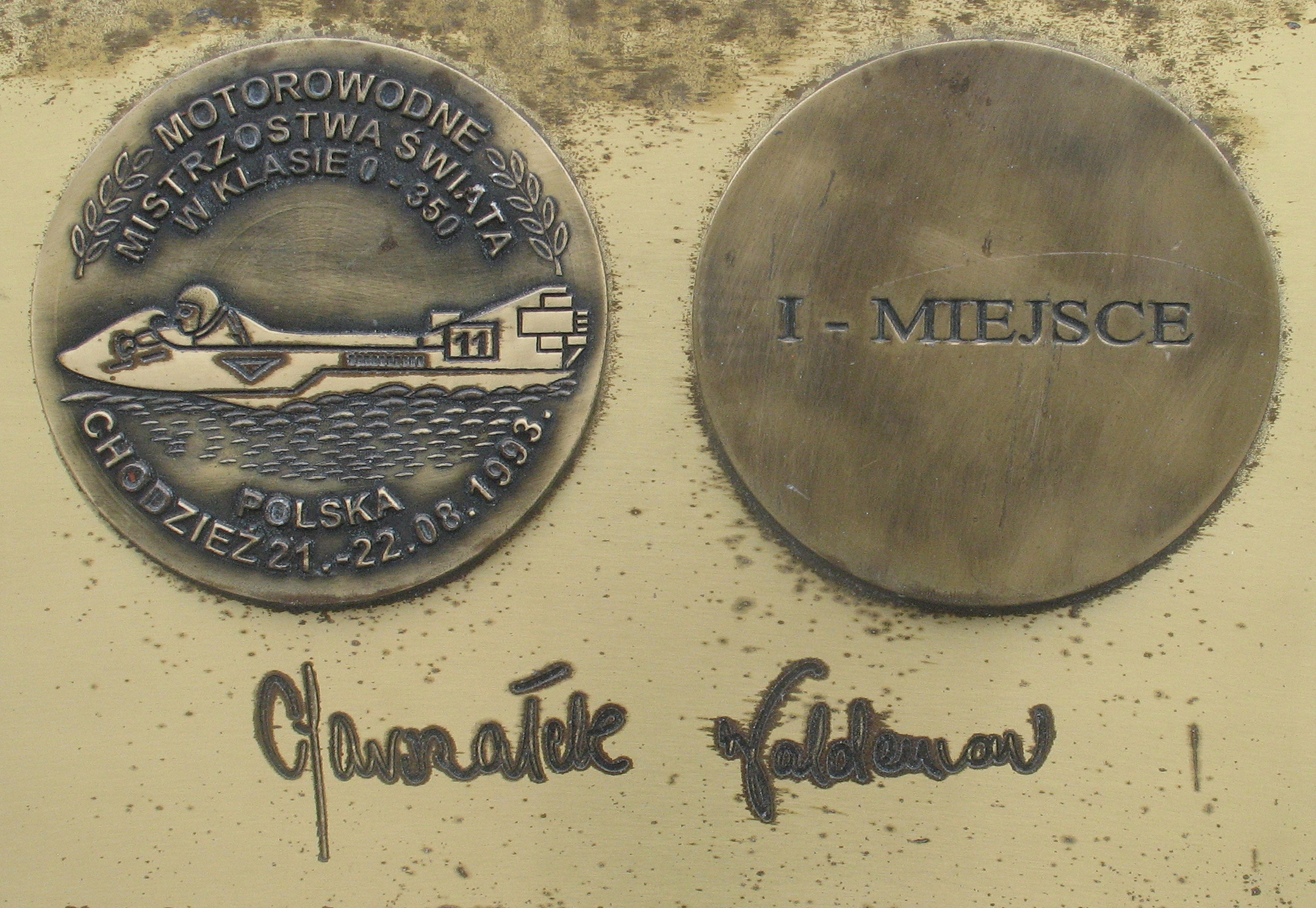 Waldemar Marszalek medal & autograph in Avenue of Sport Stars Dziwnów